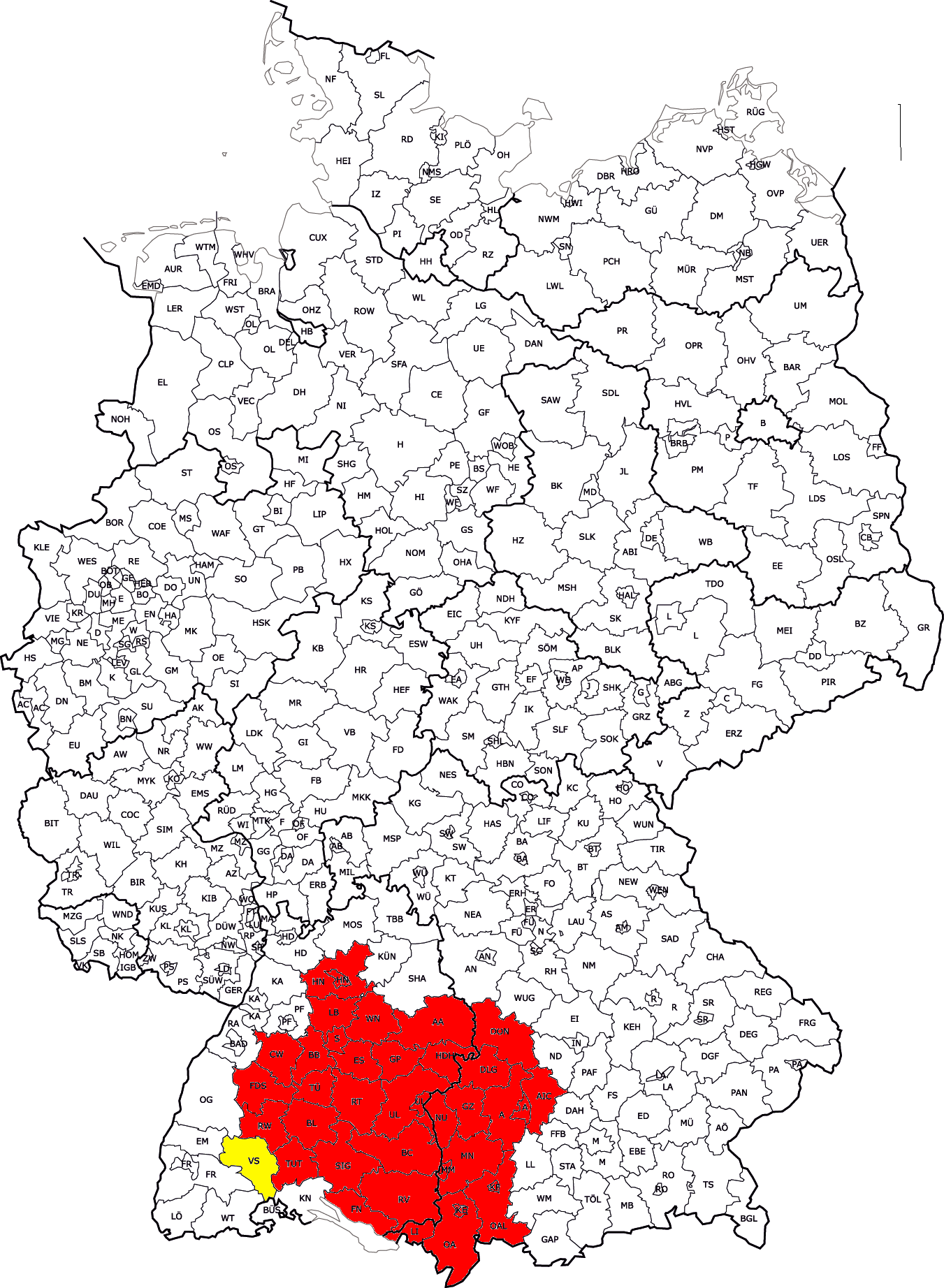 Map of modern Swabia inside of Germany